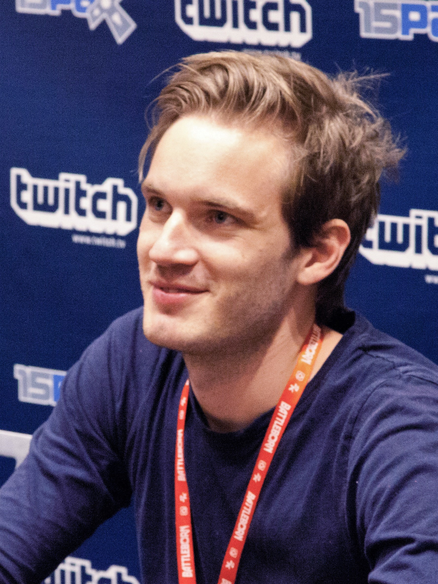 PewDiePie at PAX Prime 2015, cropped from original